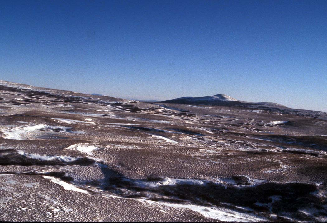 Hagemeister Island interior 1986[1]